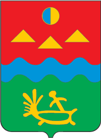 Aldan (Yakutia), coat of arms